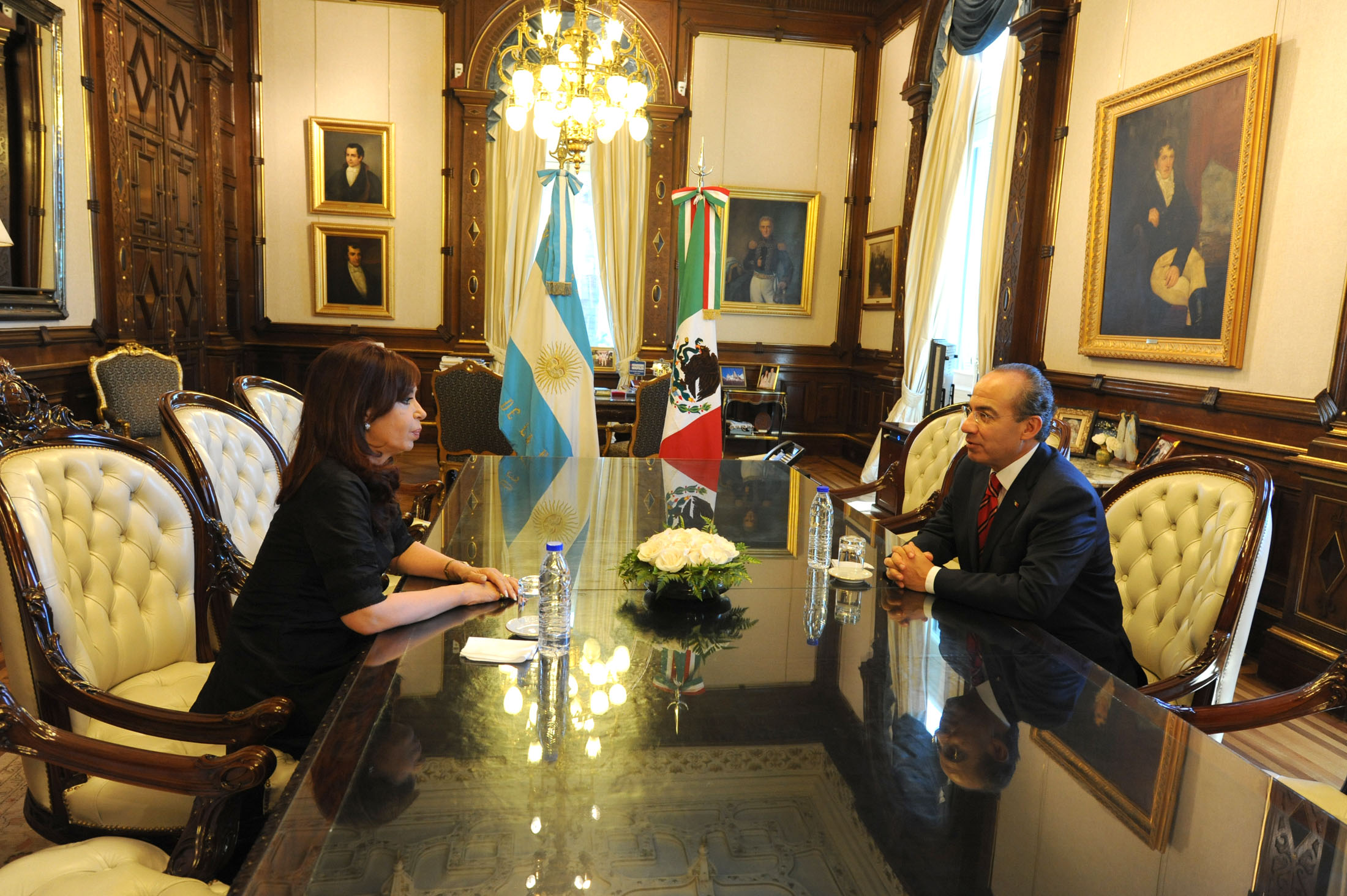 Presidents of Argentina Cristina Fernandez de Kirchner and Mexico Felipe Calderon meet at government house Casa Rosada, Buenos Aires Argentina